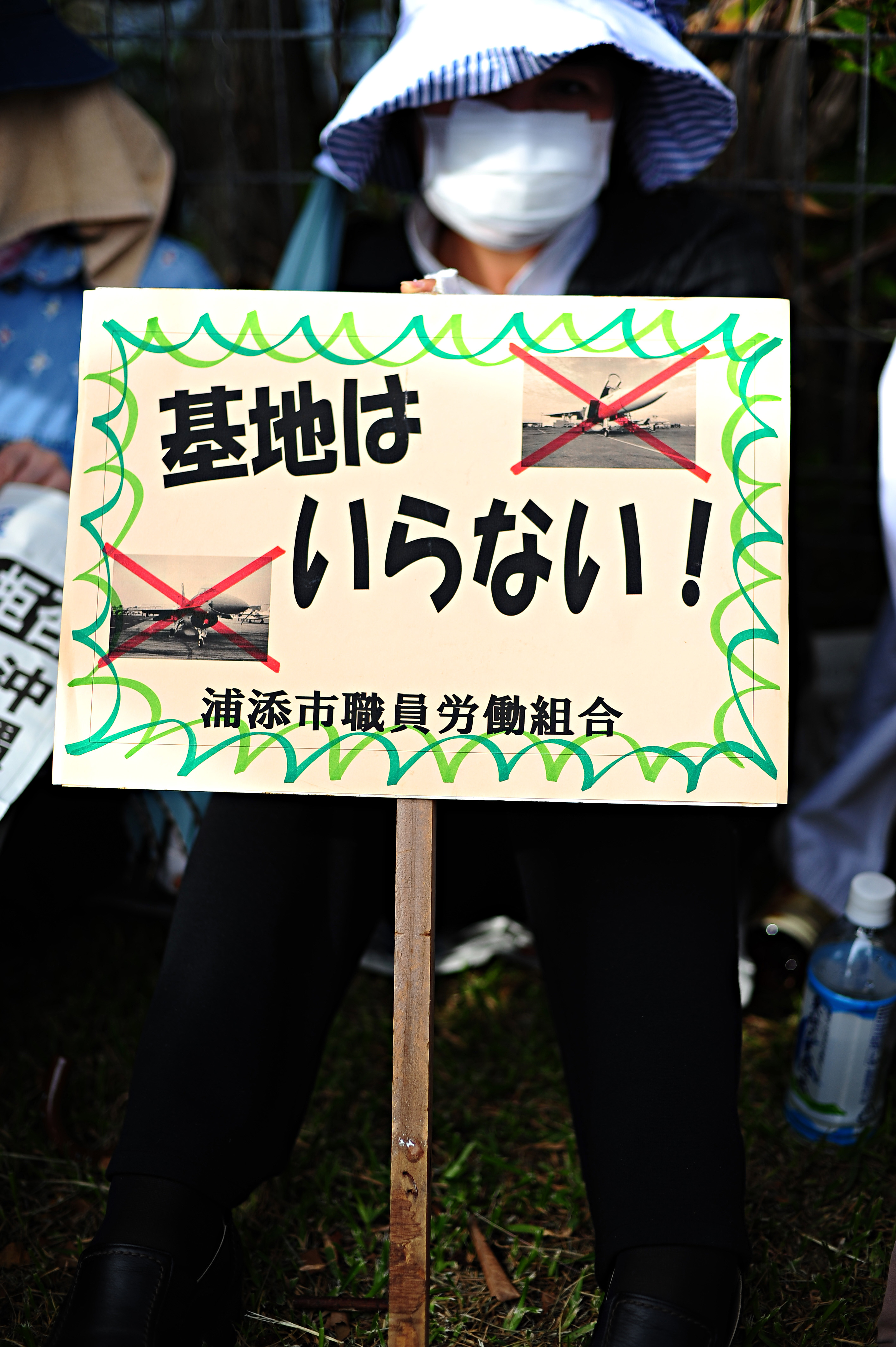 A Japanese man protesting against the US Marine Corps base Futenma in Ginowan on 2009-11-08, holding a 'No military base' sign.